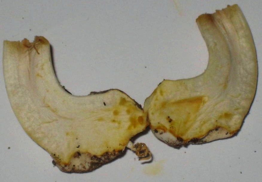 Base of an Agaricus placomyces specimens, staining yellow after being cut.